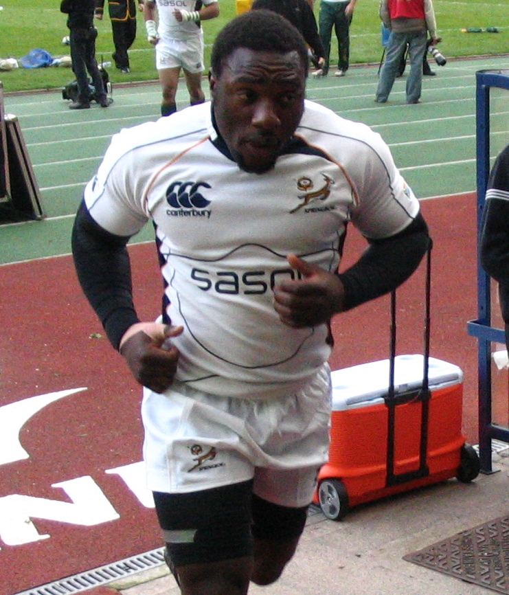 The South African rugby union player Tendai Mtawarira at Murrayfield during a test match between Scotland and South Africa, on 15 November 2008.